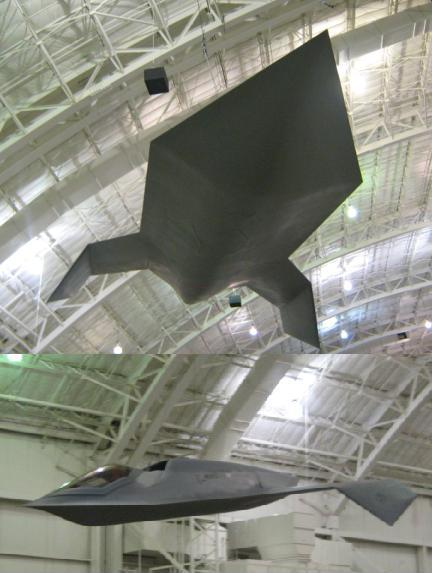 Boeing Bird of Prey at the USAF museum exhibit